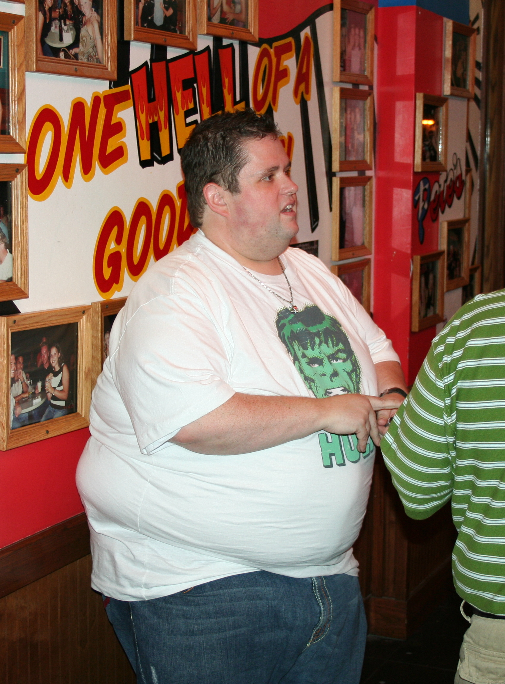 Ralphie May signing something for someone